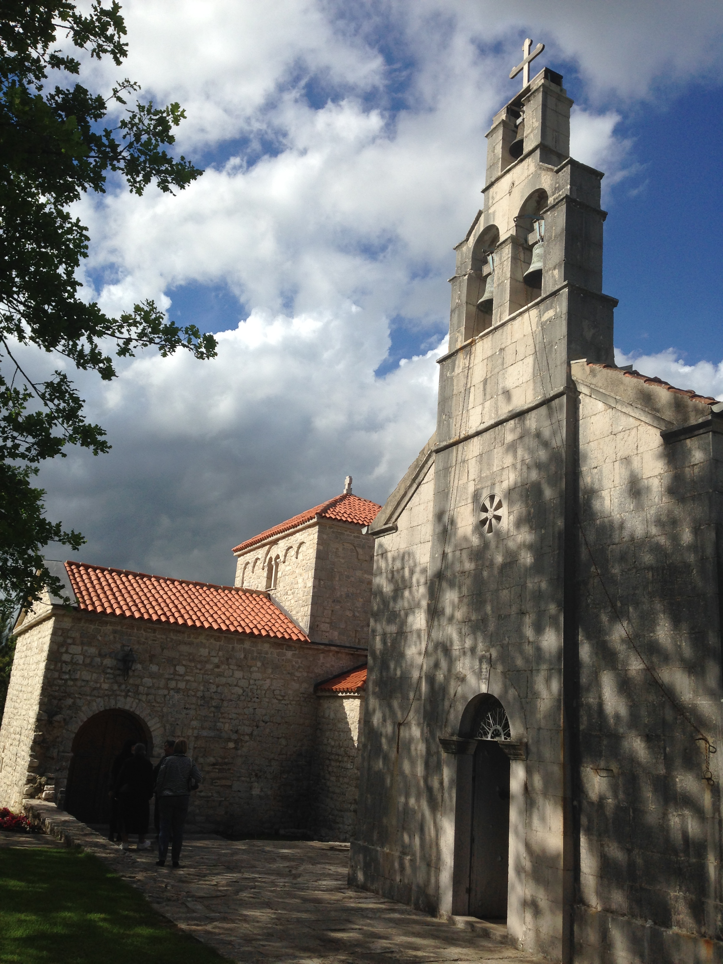 Petropavlov monstery